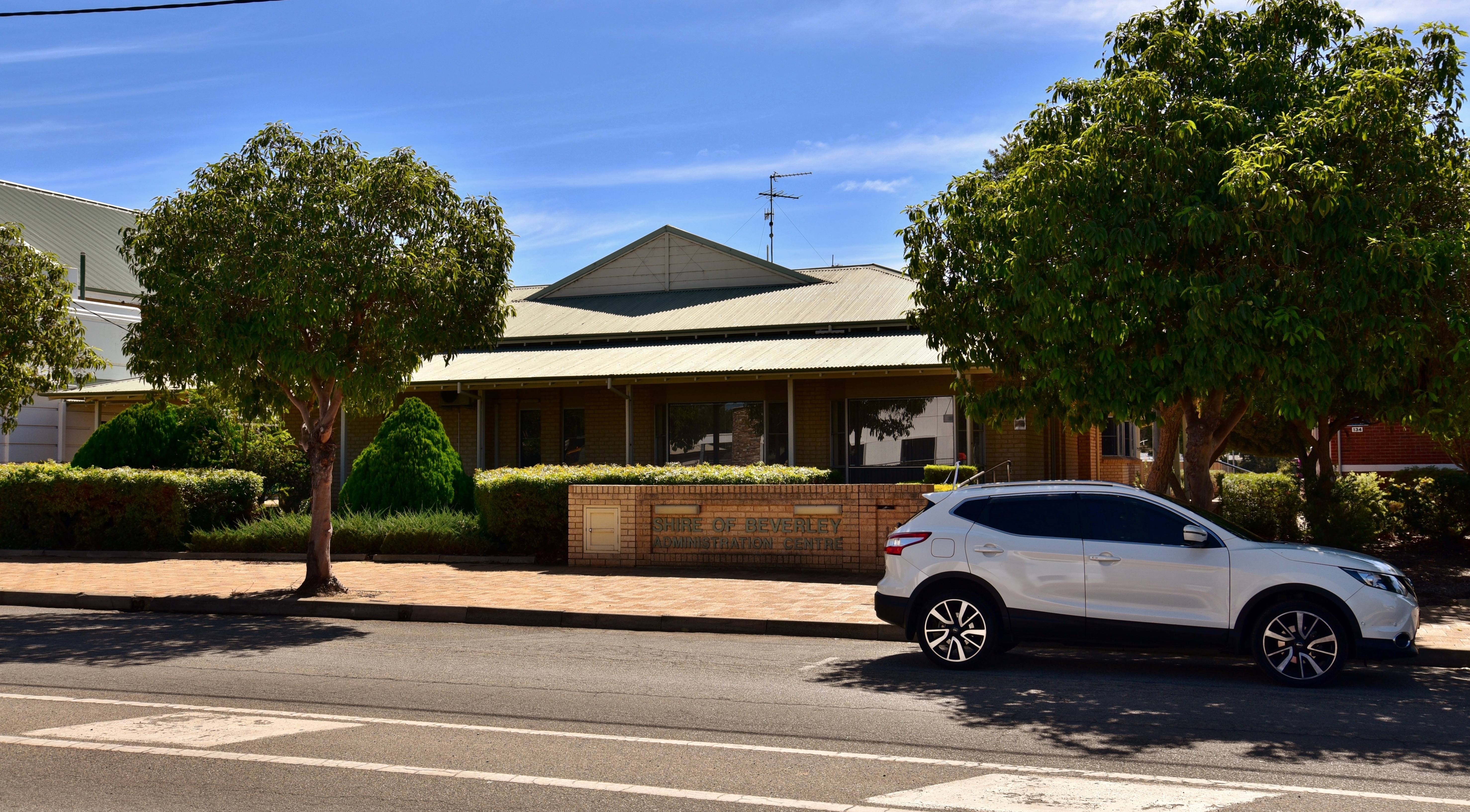 View of the Shire of Beverley Administration Centre, Vincent Street, Beverley, Western Australia